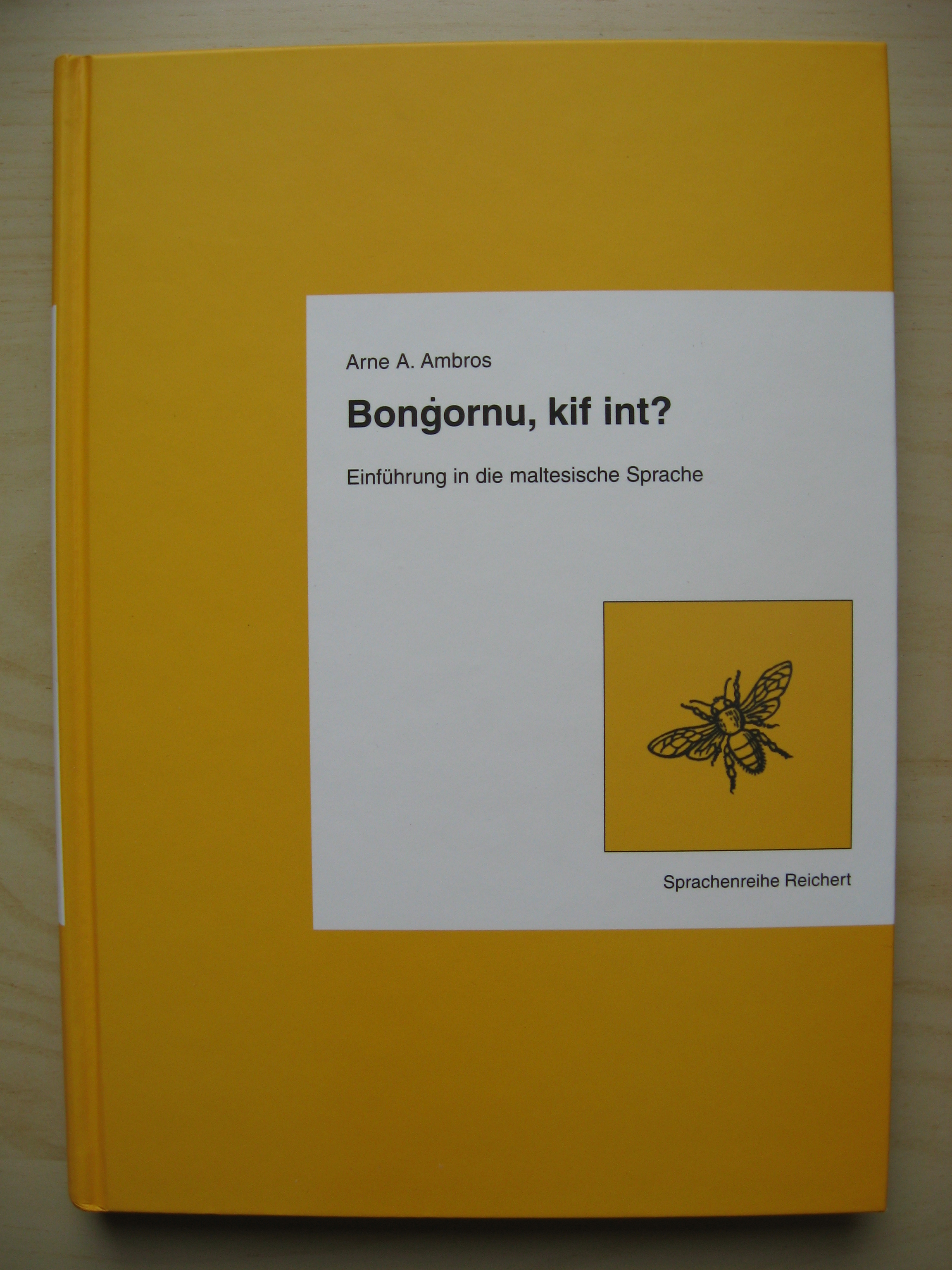 Maltese textbook by Arne Ambros, Wiesbaden 1998